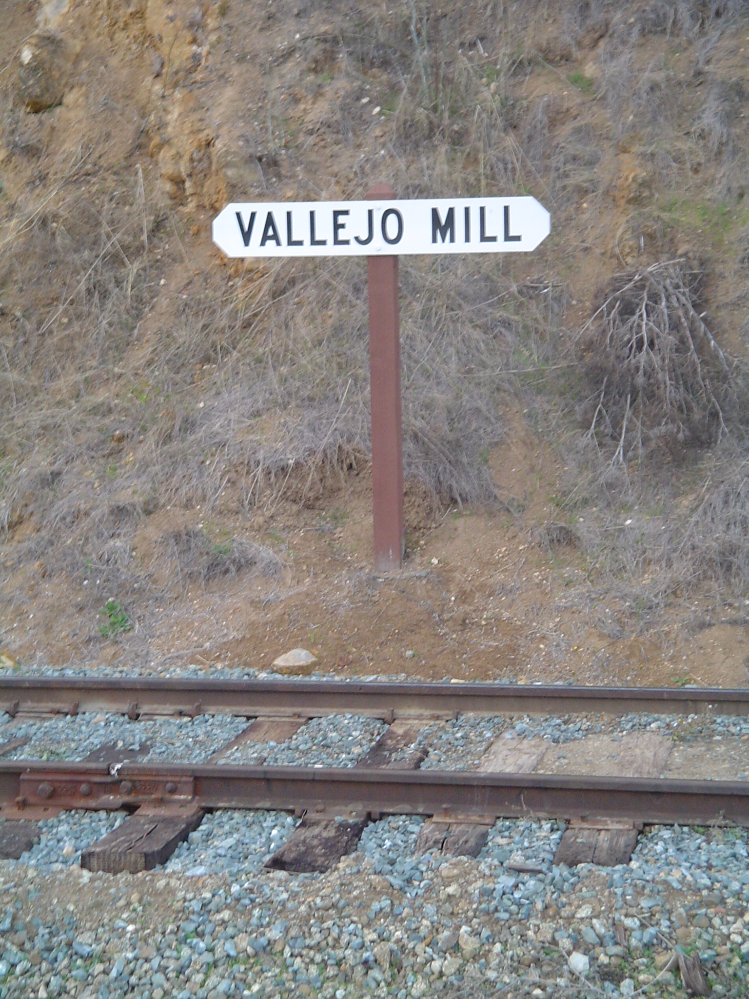 The Niles Canyon Railway sign for the Vallejo Mill near Vallejo Mill Historical Park